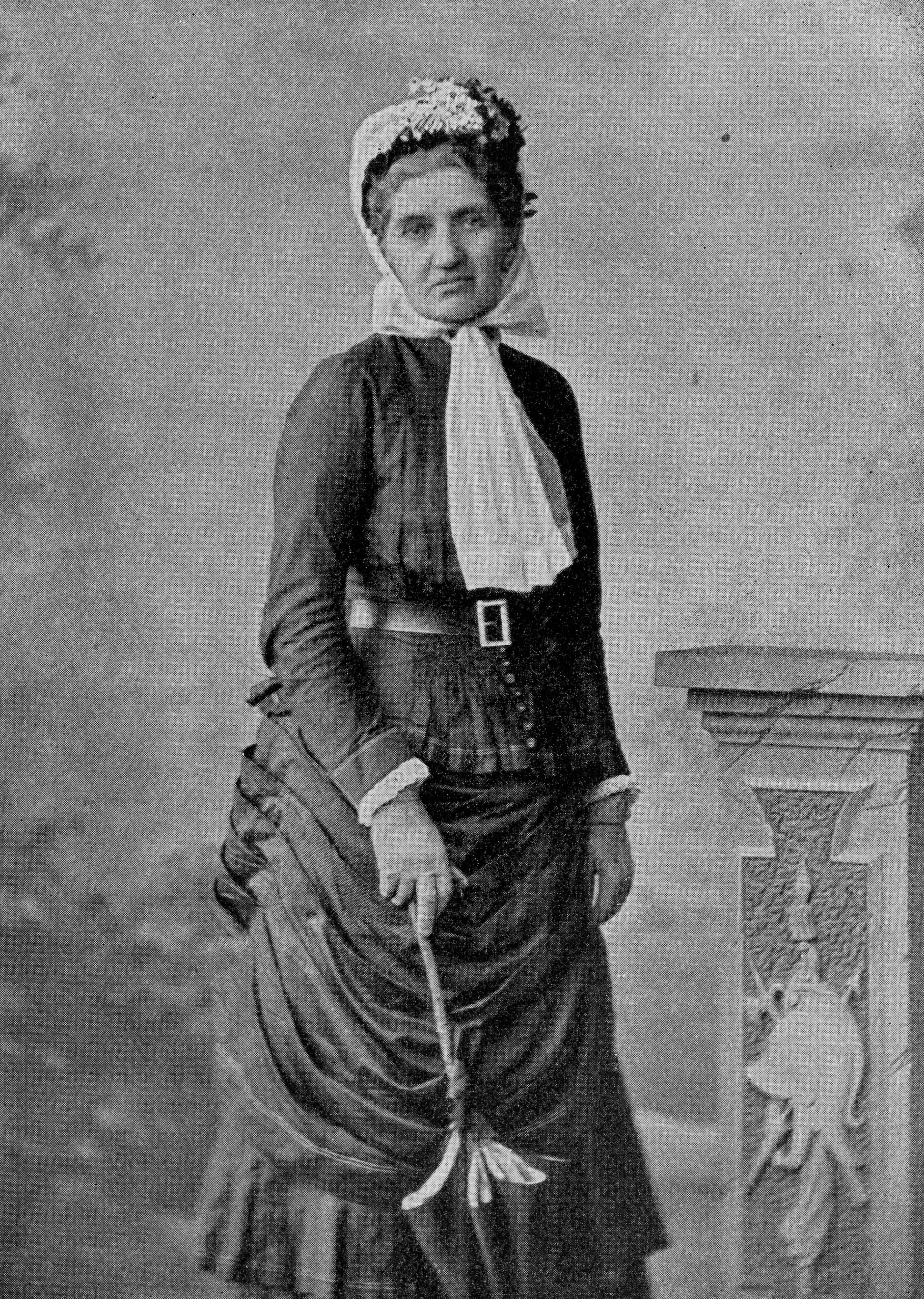 Johanna von Bismarck, Otto von Bismarcks wife 1885.